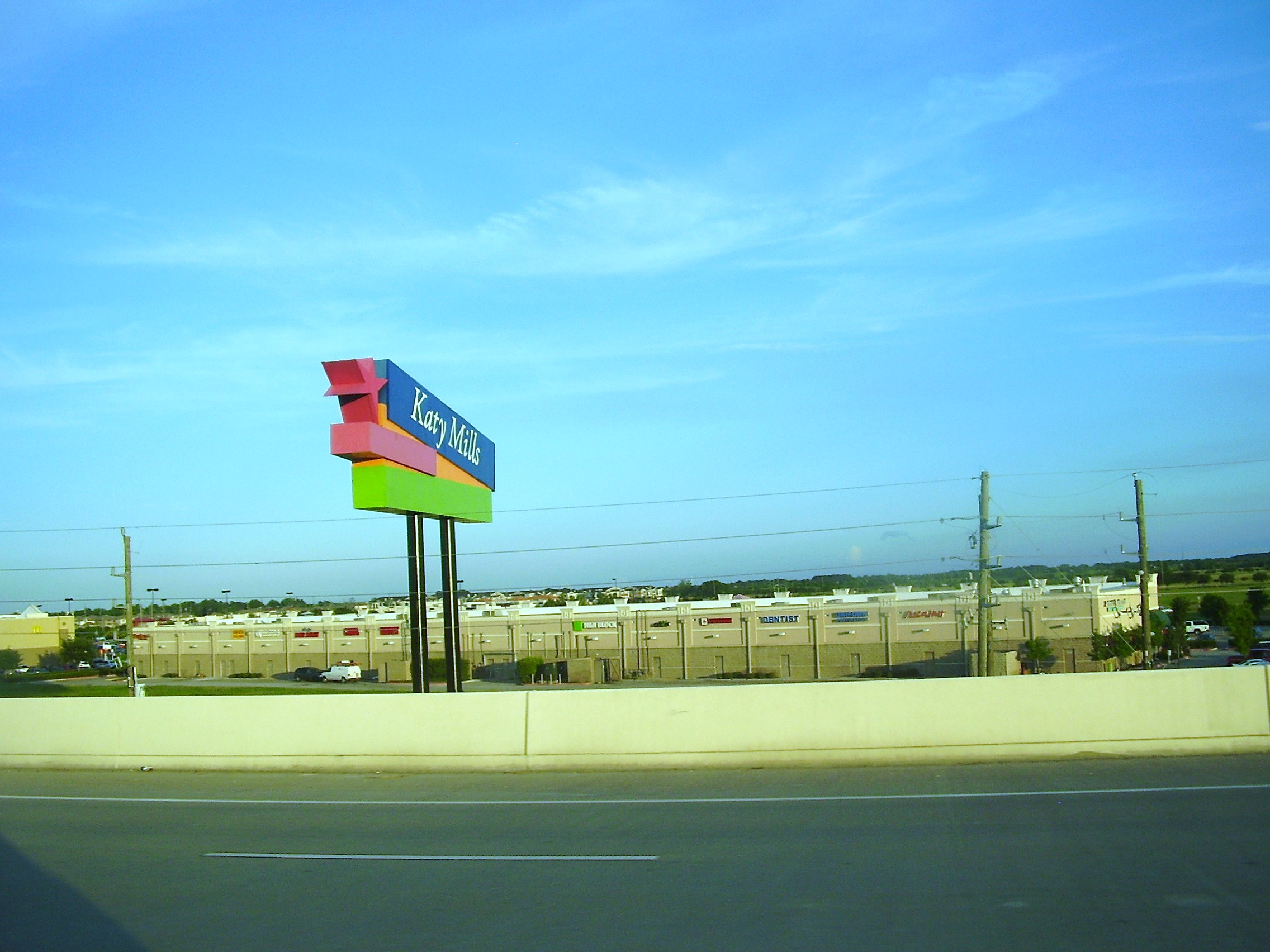 Katy Mills